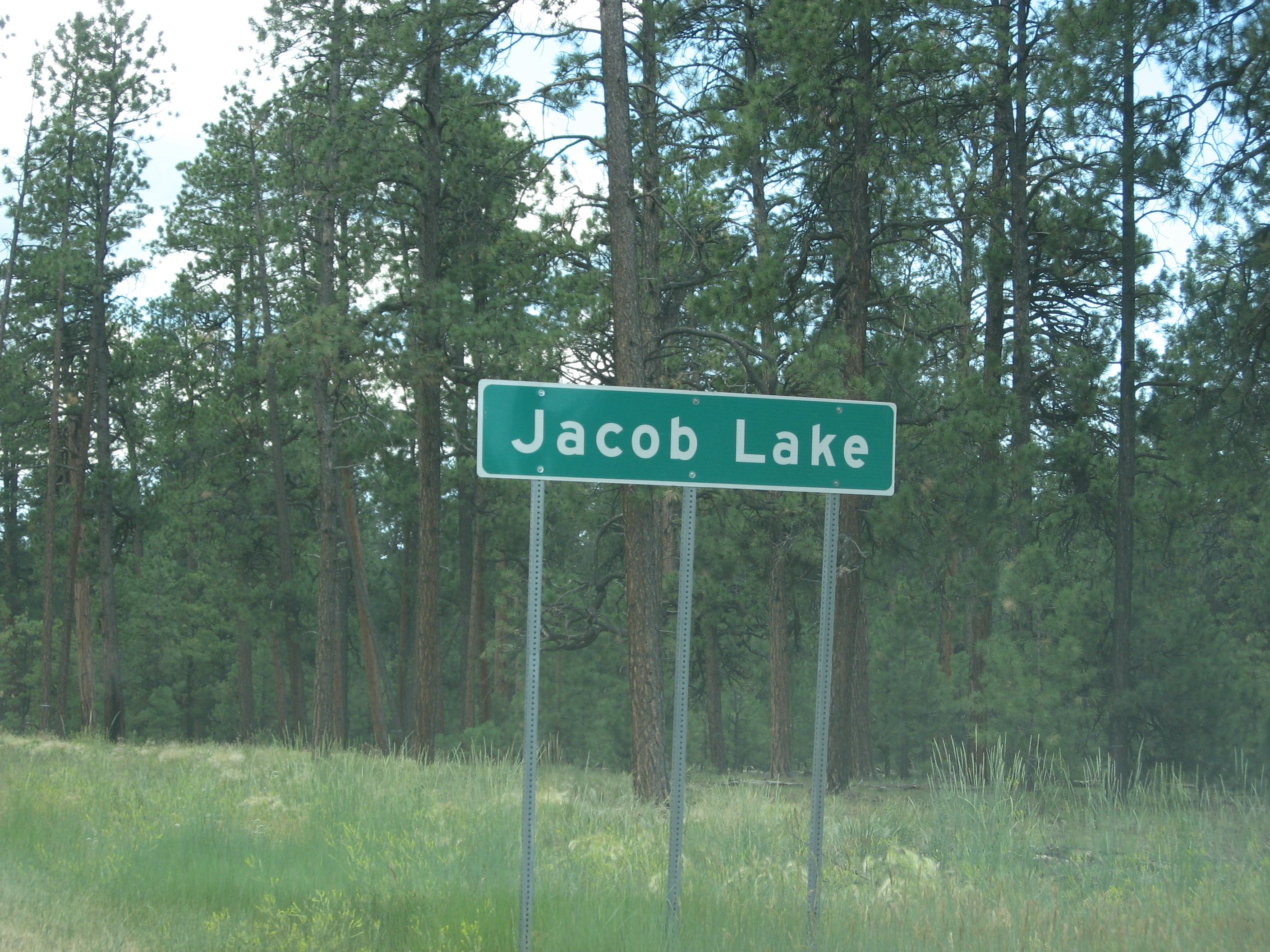 Jacob Lake is a small unincorporated community on the Kaibab Plateau in Coconino County, Arizona, United States